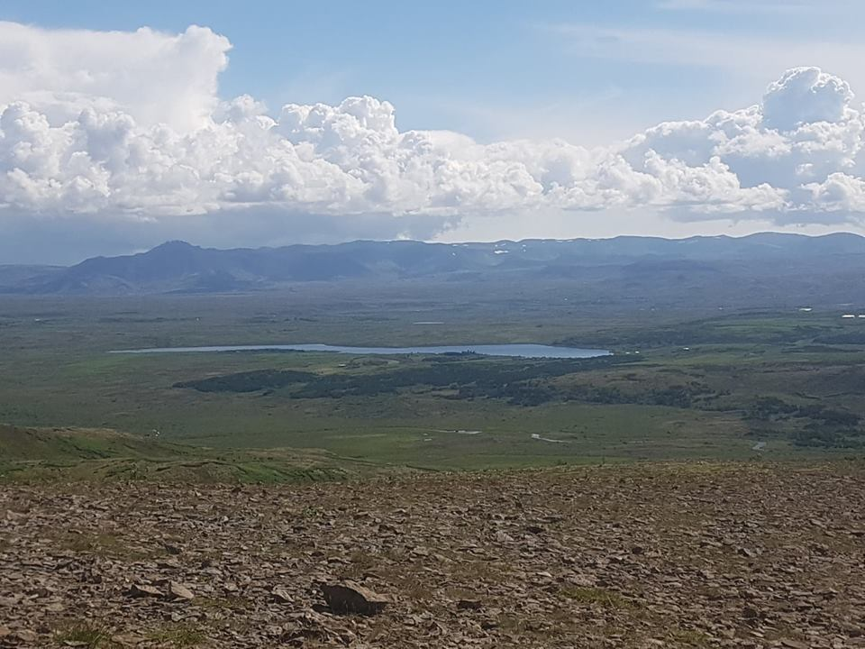 Langavatn on the border of Mosfellsbær and Reykjavík